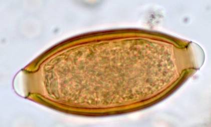 Gastrointestinal parasites in seven primates of the Taï National Park - Helminths Figure 3i of paper. Egg of Trichuris sp.